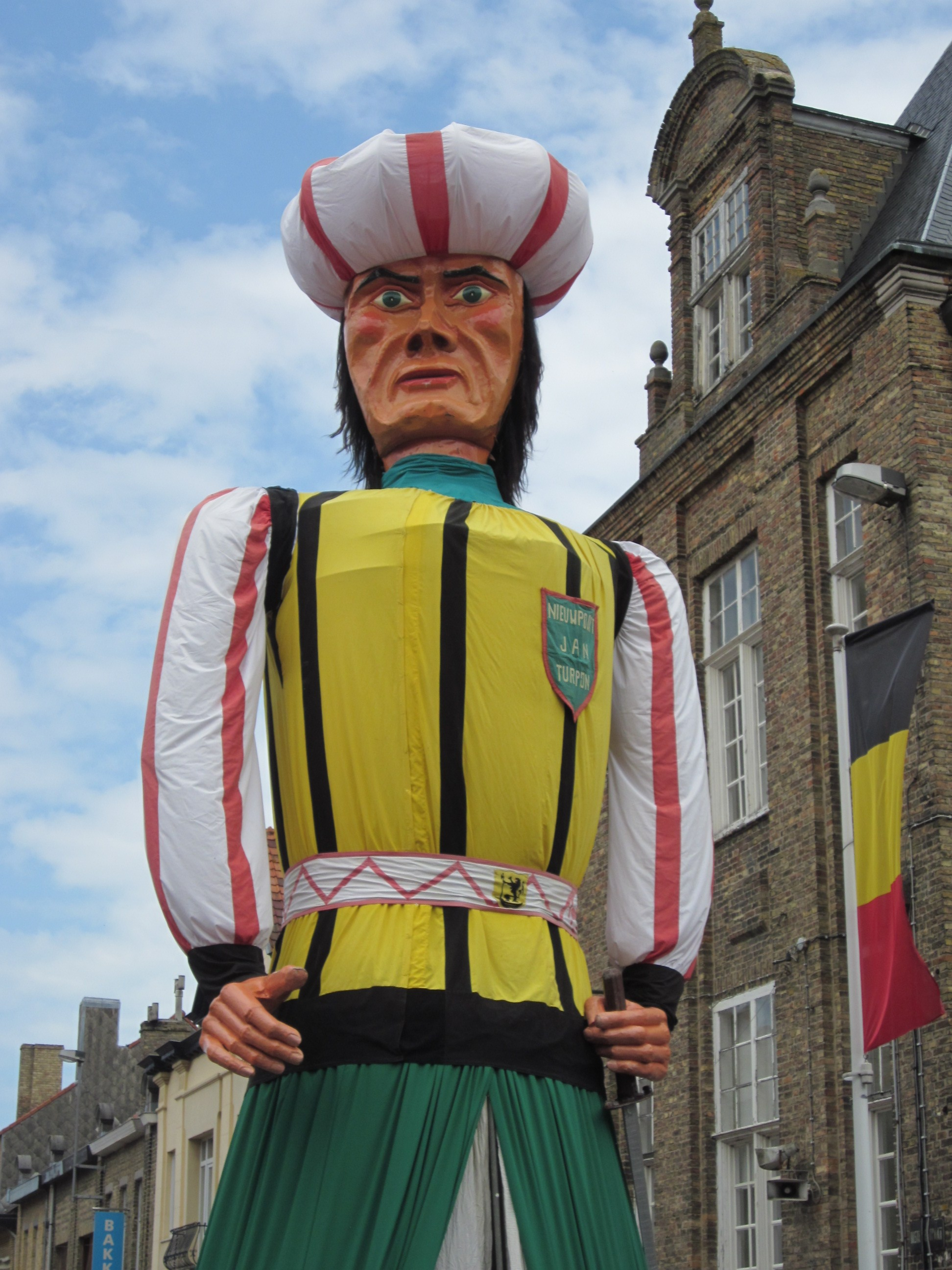 Jan Turpin, giant of Nieuwpoort, Belgium